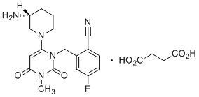 Trelagliptin : Succinic Acid (1:1)